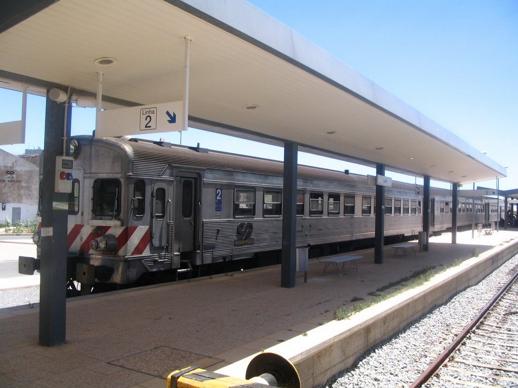 Regional in Lagos from Tunes.